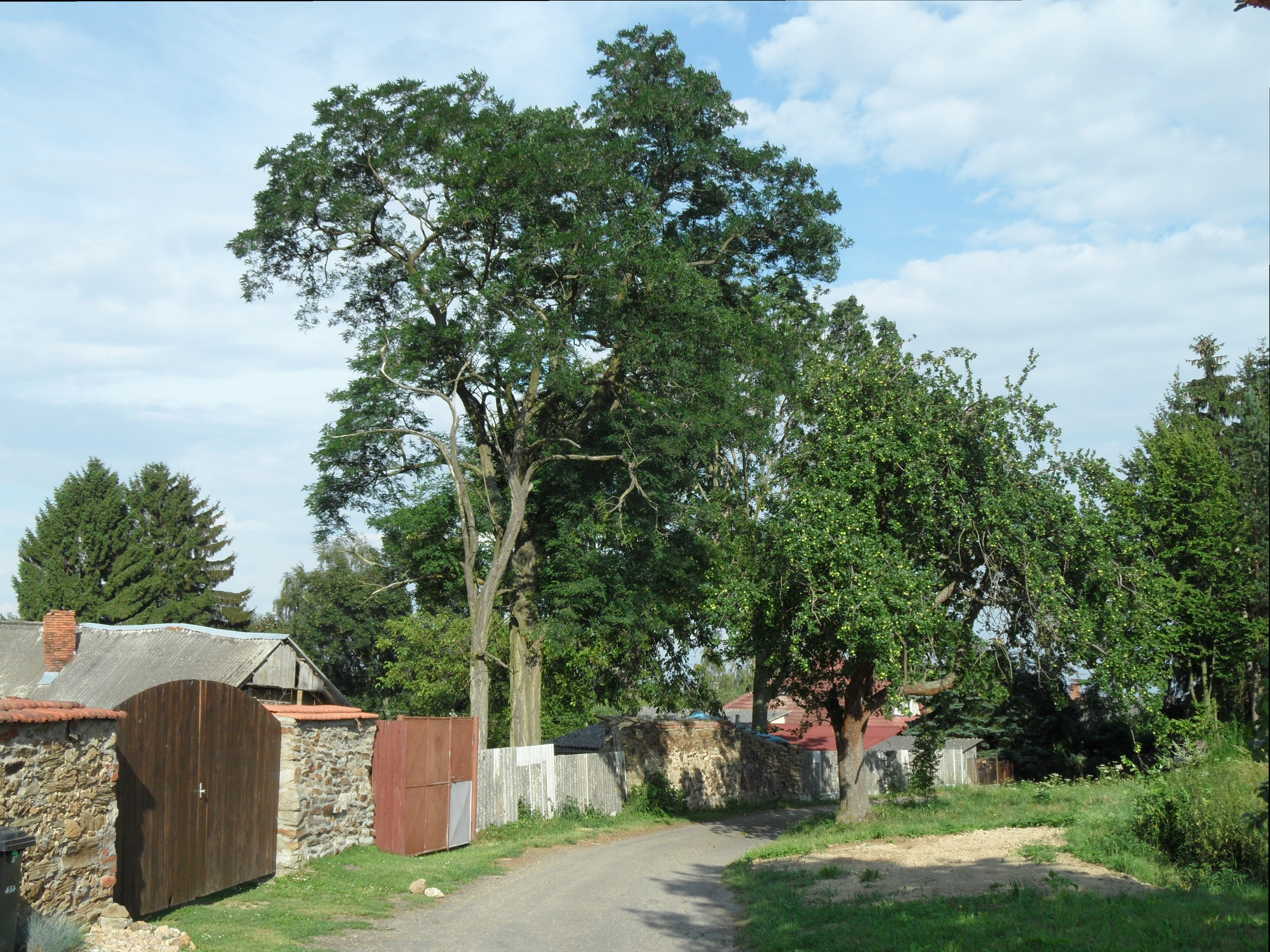 Kraličky (Chlístovice) B. Houses along Road to the Centre of the Village, Kutná Hora District, the Czech Republic.